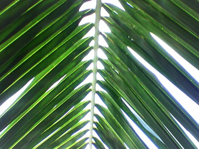 This was taken using a mobile in chennai by me Piyush Bishnoi in march 2008